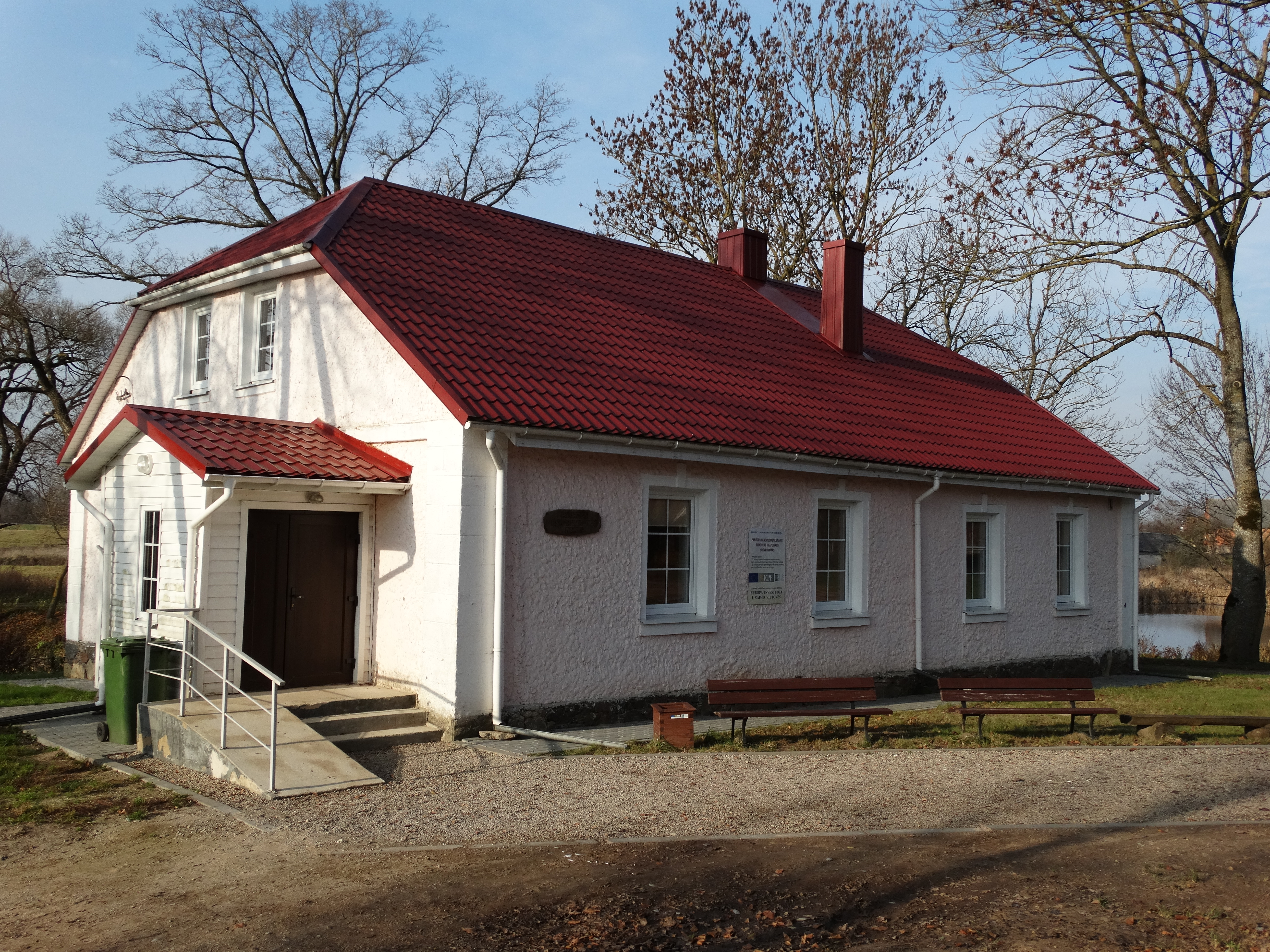 Community house, Pabiržė, Biržai district, Lithuania